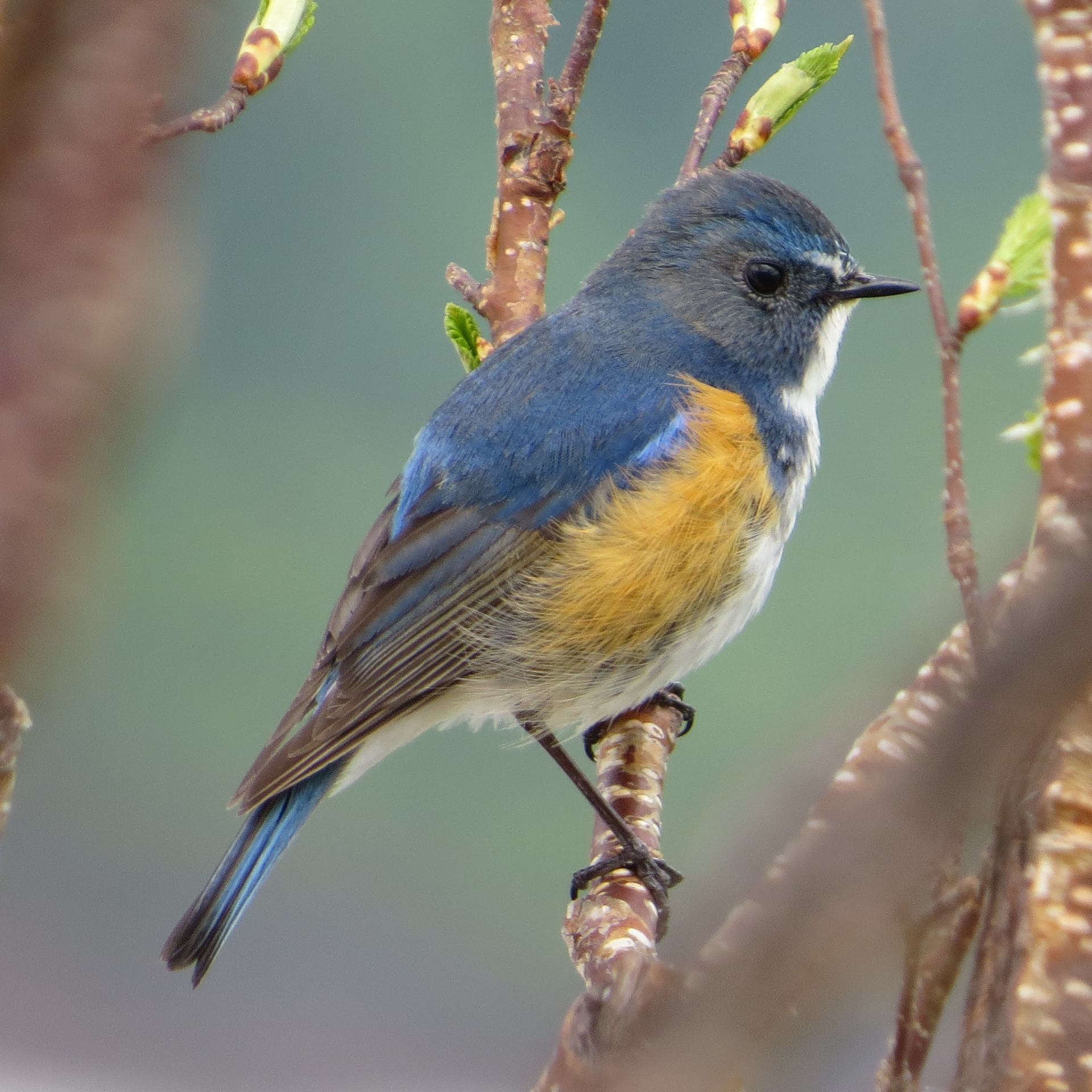 Tarsiger cyanurus (Red-flanked Bluetail), male on the branch, in Mount Haku, Gifu prefecture, Japan.